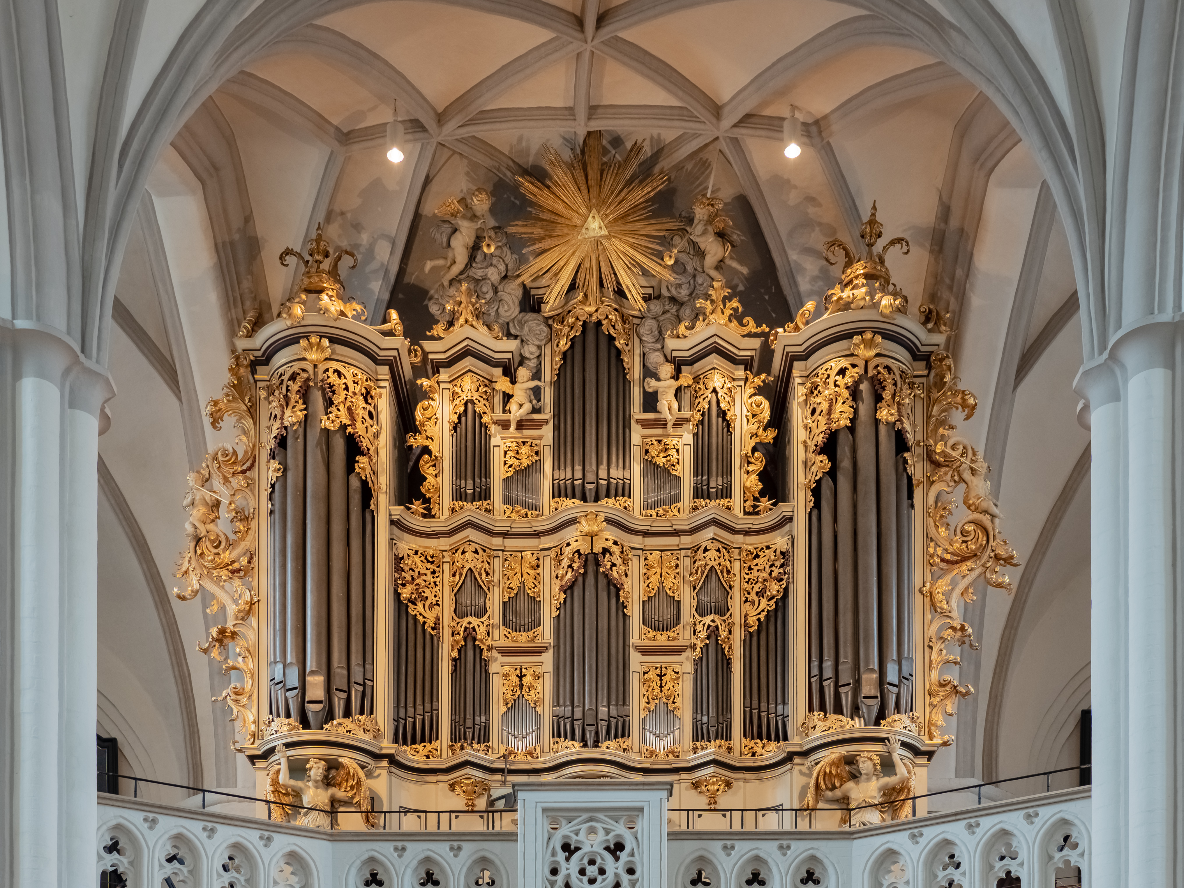 Organ of the Marienkirche in Berlin Mitte